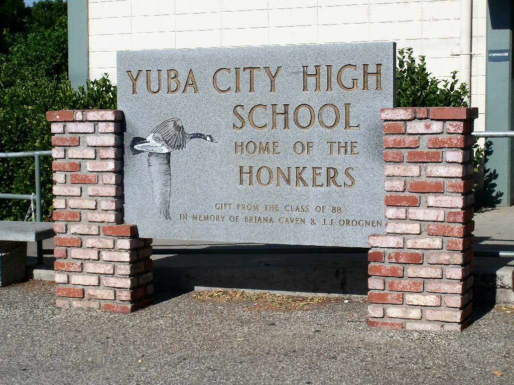 Yuba City High School sign. School team is the Honkers.